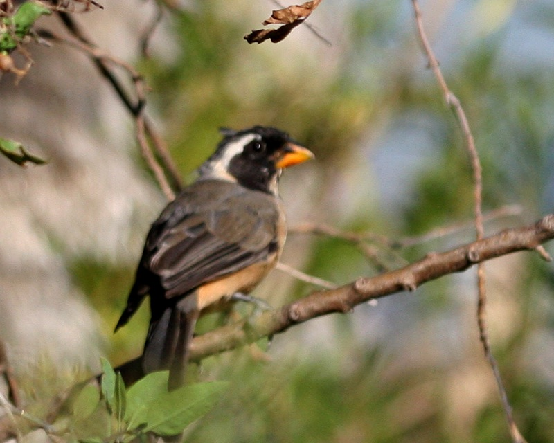 Golden-billed Saltator (Saltator aurantiirostris) at Costanera, Buenos Aires, Argentina. Distribution